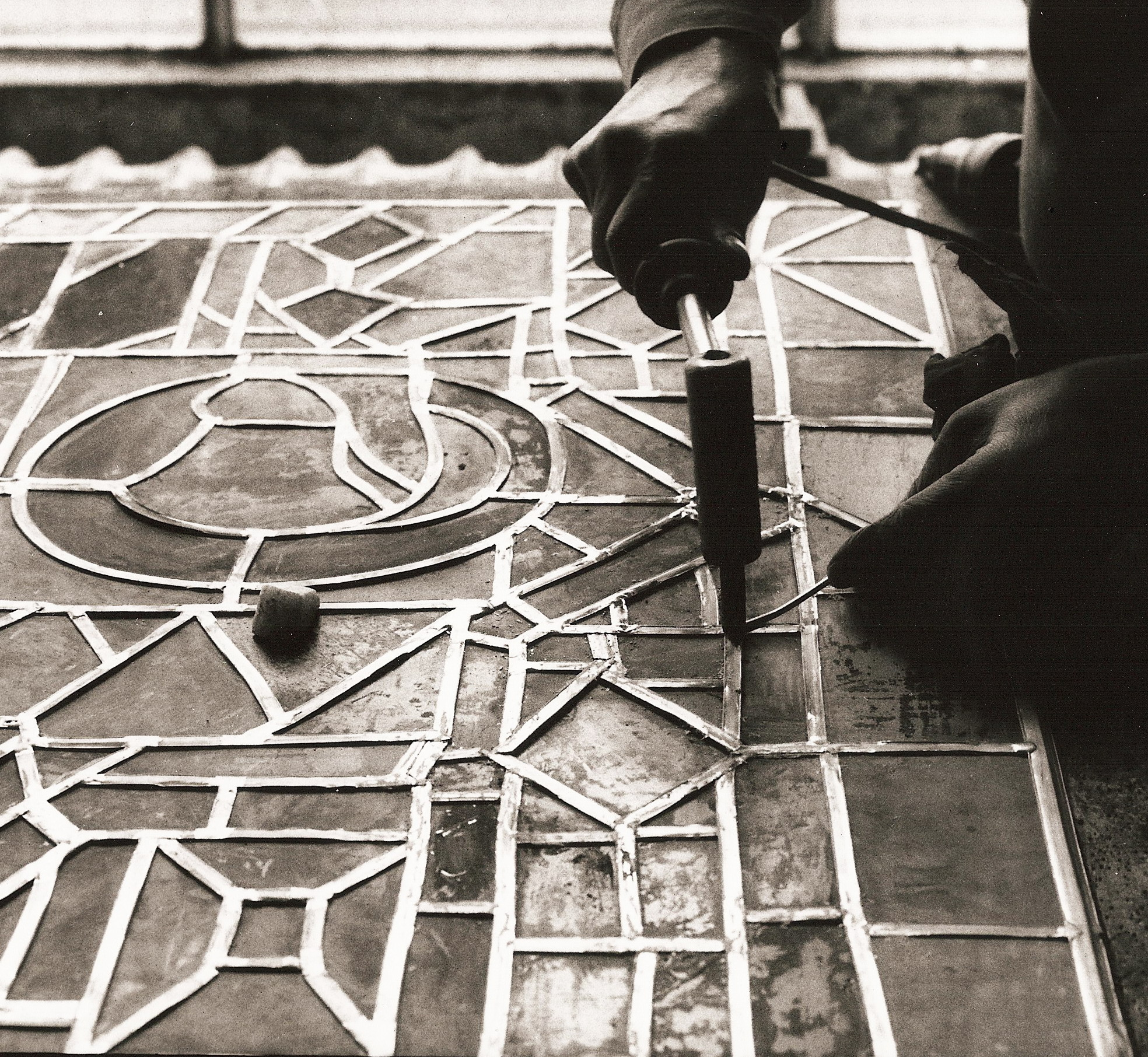 Soldering a part of a stained glass window